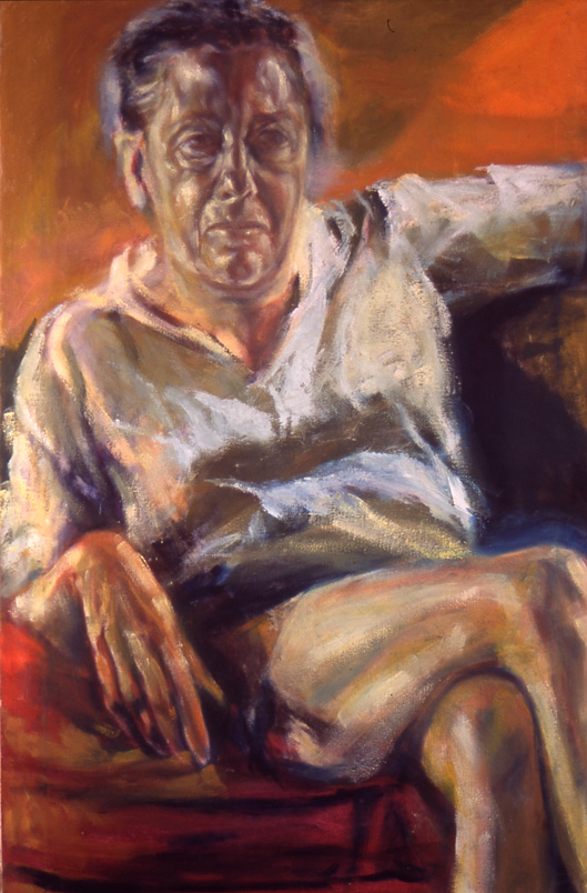 Mrs. Ress 40"x24"